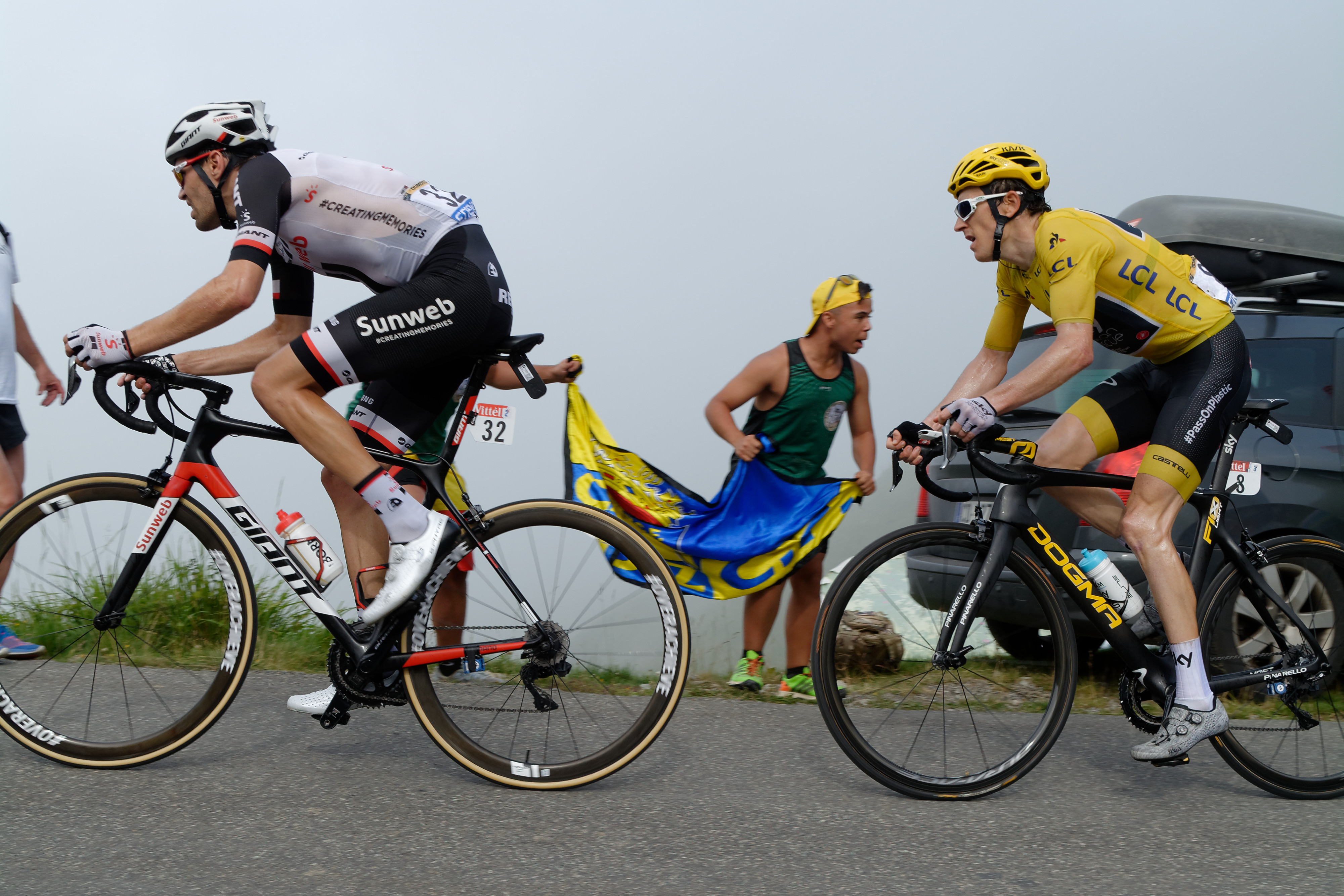 2018 Tour de France